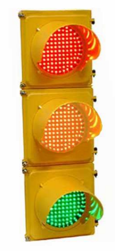 A standard traffic signal arrangement: red on top, yellow below, and green below that